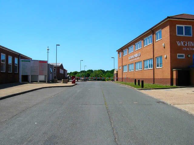 Station Road Industrial Estate, Hailsham. Entrance to a small industrial estate on the outskirts of Hailsham. The building to the right is Wightman & Parrish, purveyor of healthcare and hygiene supplies.